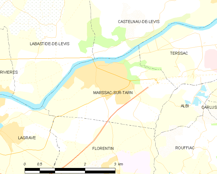 Map of French municipality Marssac-sur-Tarn